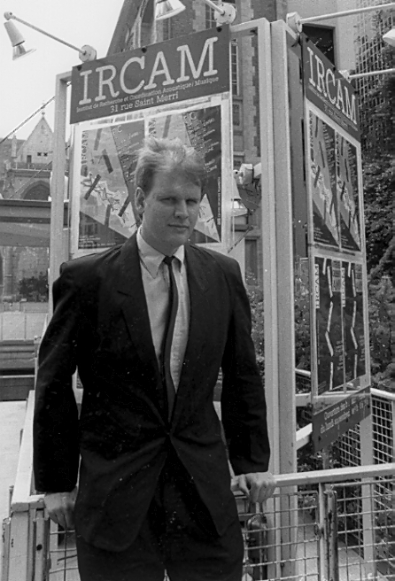 Michael Daugherty at IRCAM in Paris, France, 1979